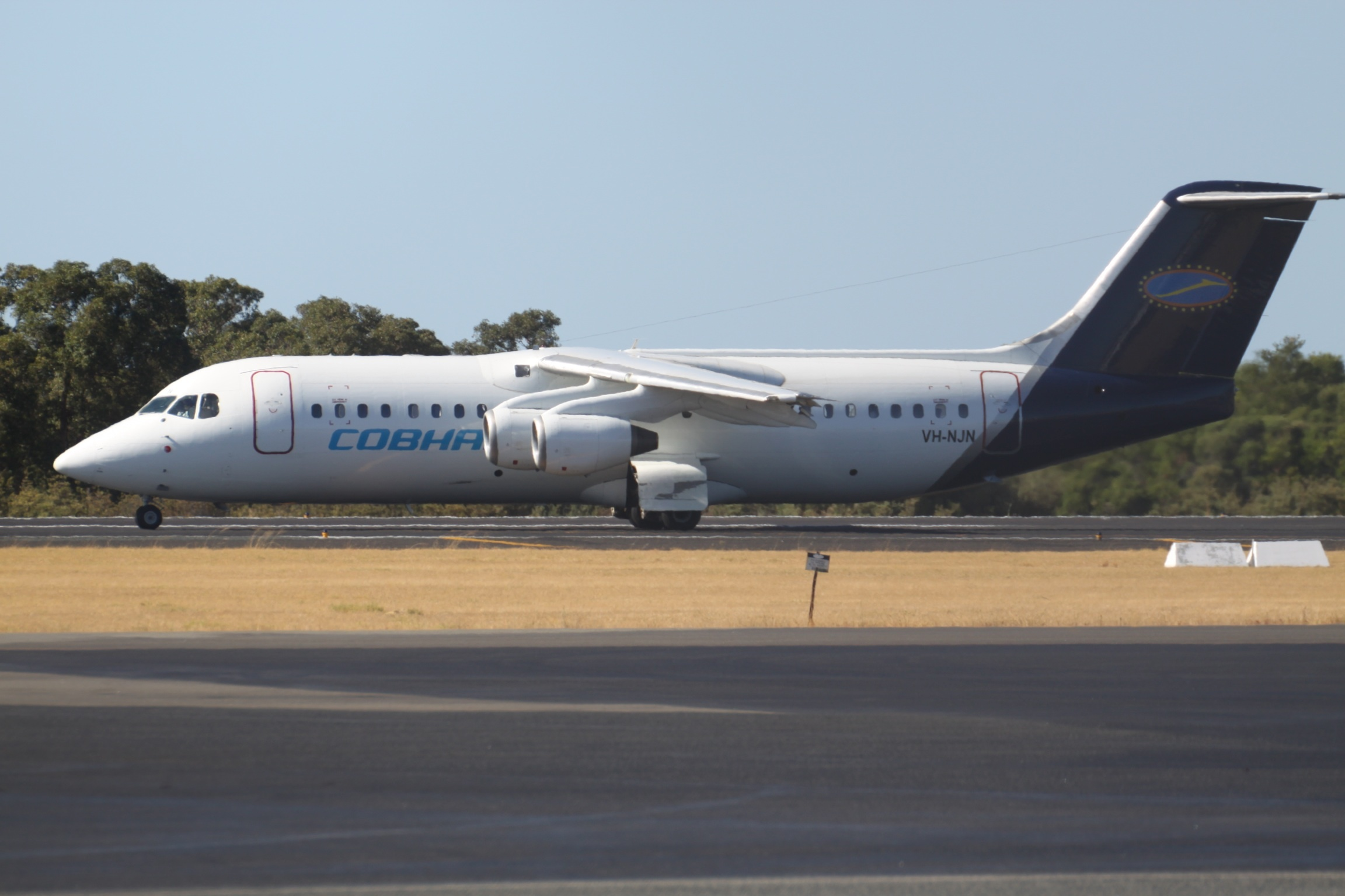 At Perth